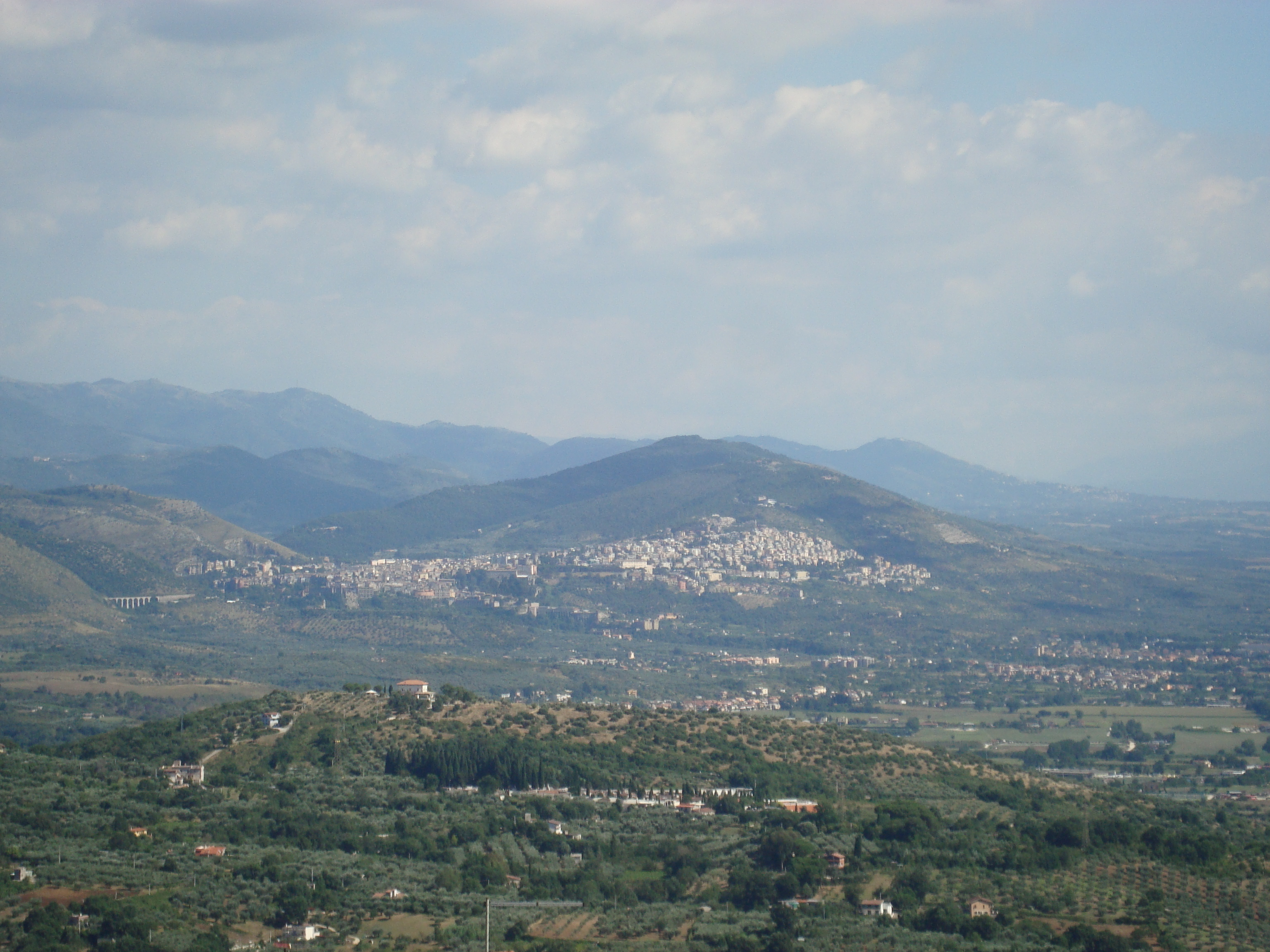 View of Tivoli from Sant'Angelo Romano